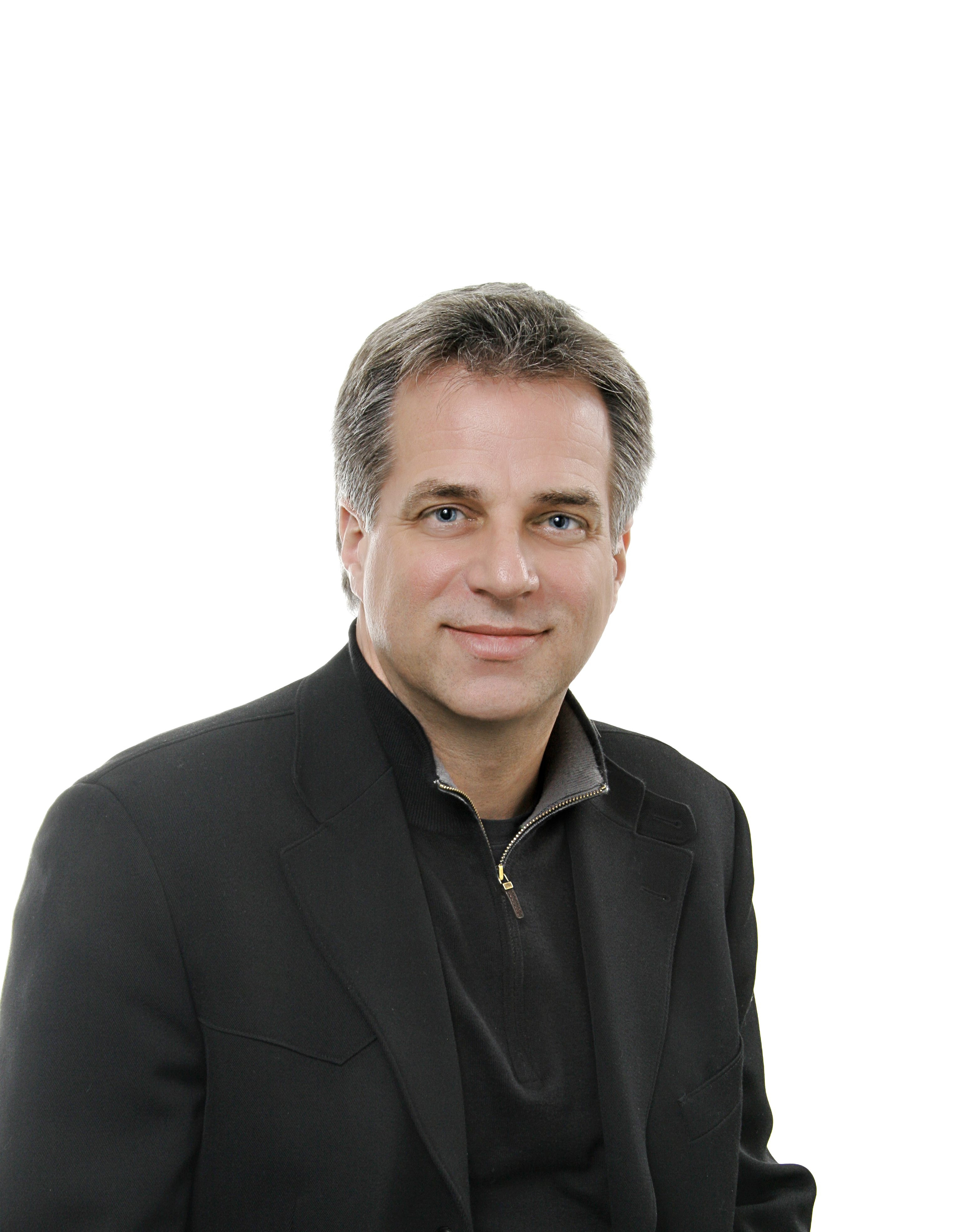 Photograph of Mark Dziersk in March 2009